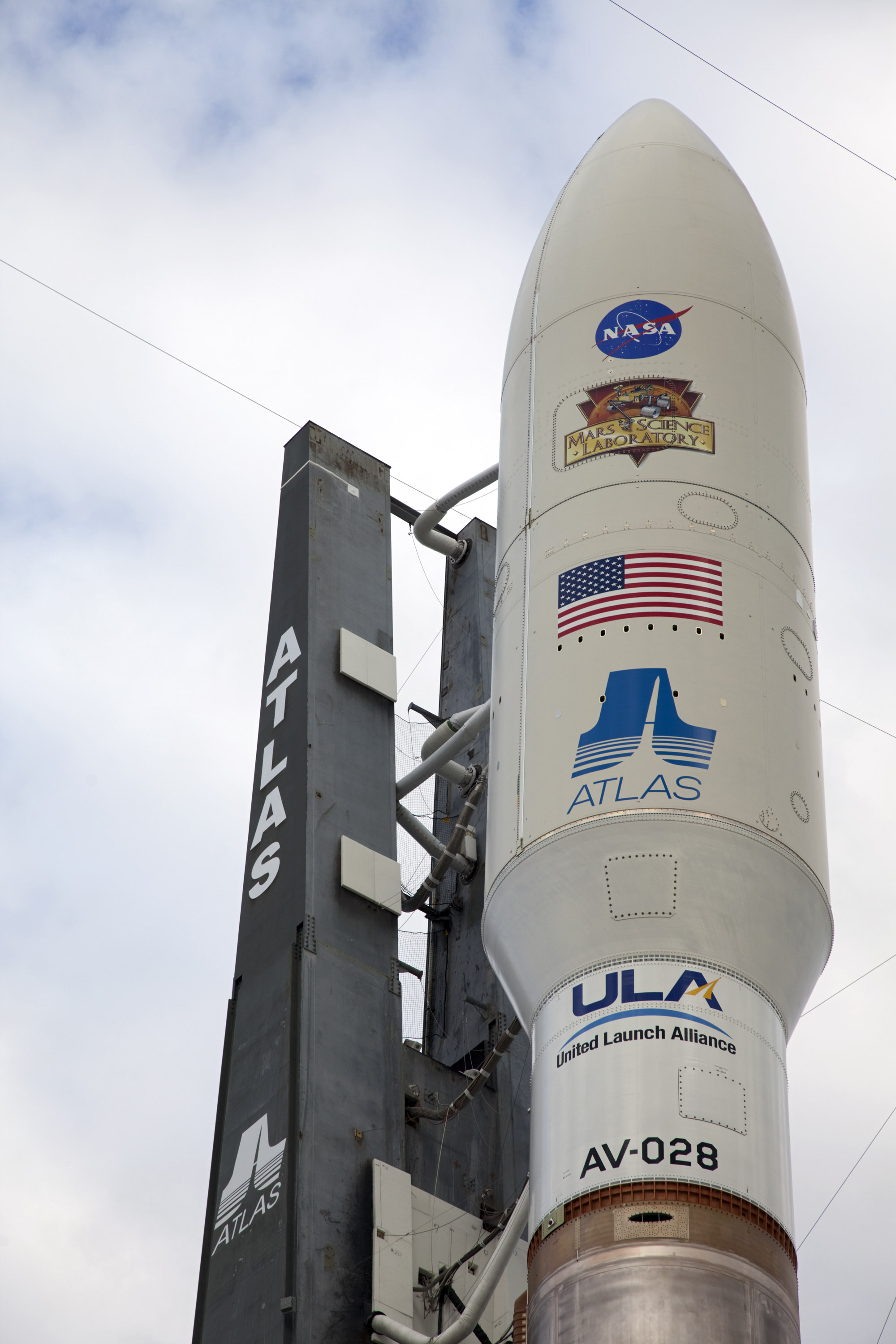 CAPE CANAVERAL, Fla. -- The NASA and Mars Science Laboratory (MSL) logos appear above the American flag and Atlas logo on the payload fairing atop the 197-foot-tall United Launch Alliance Atlas V rocket. Enclosed inside the fairing is the MSL spacecraft, awaiting its launch on a mission to the Red Planet. At 8 a.m., the rocket rolled out of the Vertical Integration Facility at Space Launch Complex 41 on Cape Canaveral Air Force Station in Florida, arriving at the launch pad at 8:40 a.m. Liftoff is planned during a launch window which extends from 10:02 a.m. to 11:45 a.m. EST on Nov. 26. MSL's components include a car-sized rover, Curiosity, which has 10 science instruments designed to search for signs of life, including methane, and help determine if the gas is from a biological or geological source. For more information, visit